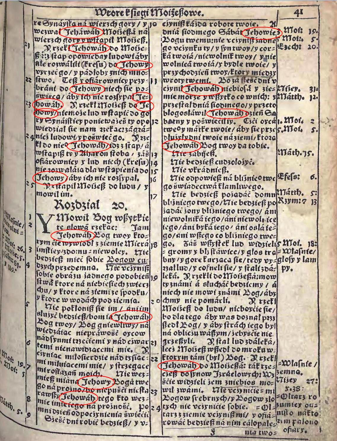 Page of Polish "Biblia Nieświeska" (Nesvizh Bible) translated by Szymon Budny (1572). Including God's Name "Jehovah"